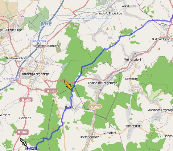 routemap Eisenweg